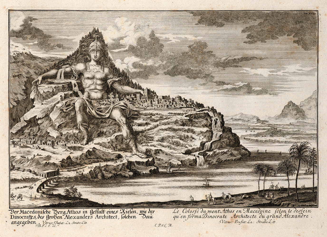 Transformation of Athos in a giant sculpture with a city on a hand by Dinokrates.